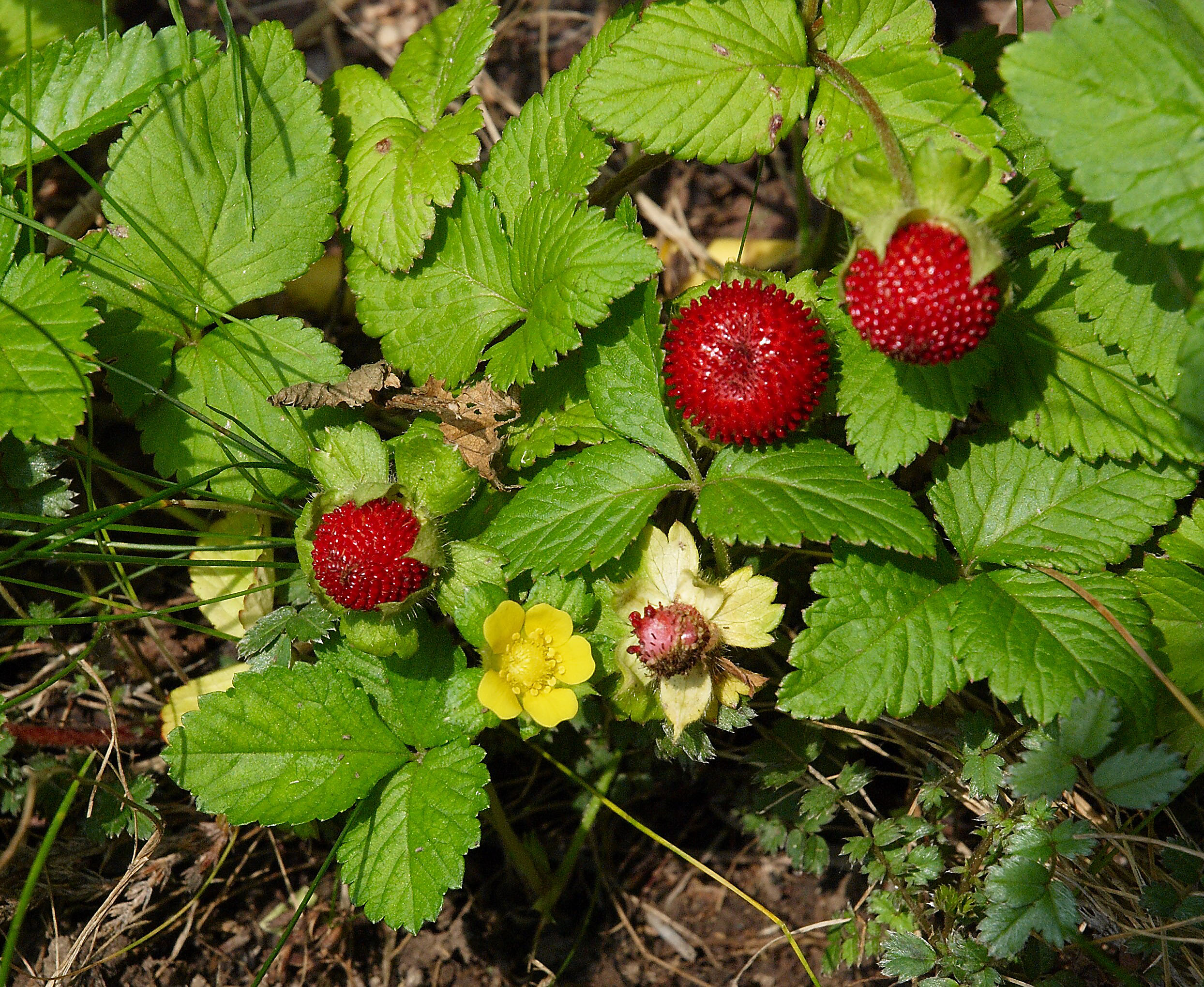 Mock Strawberry